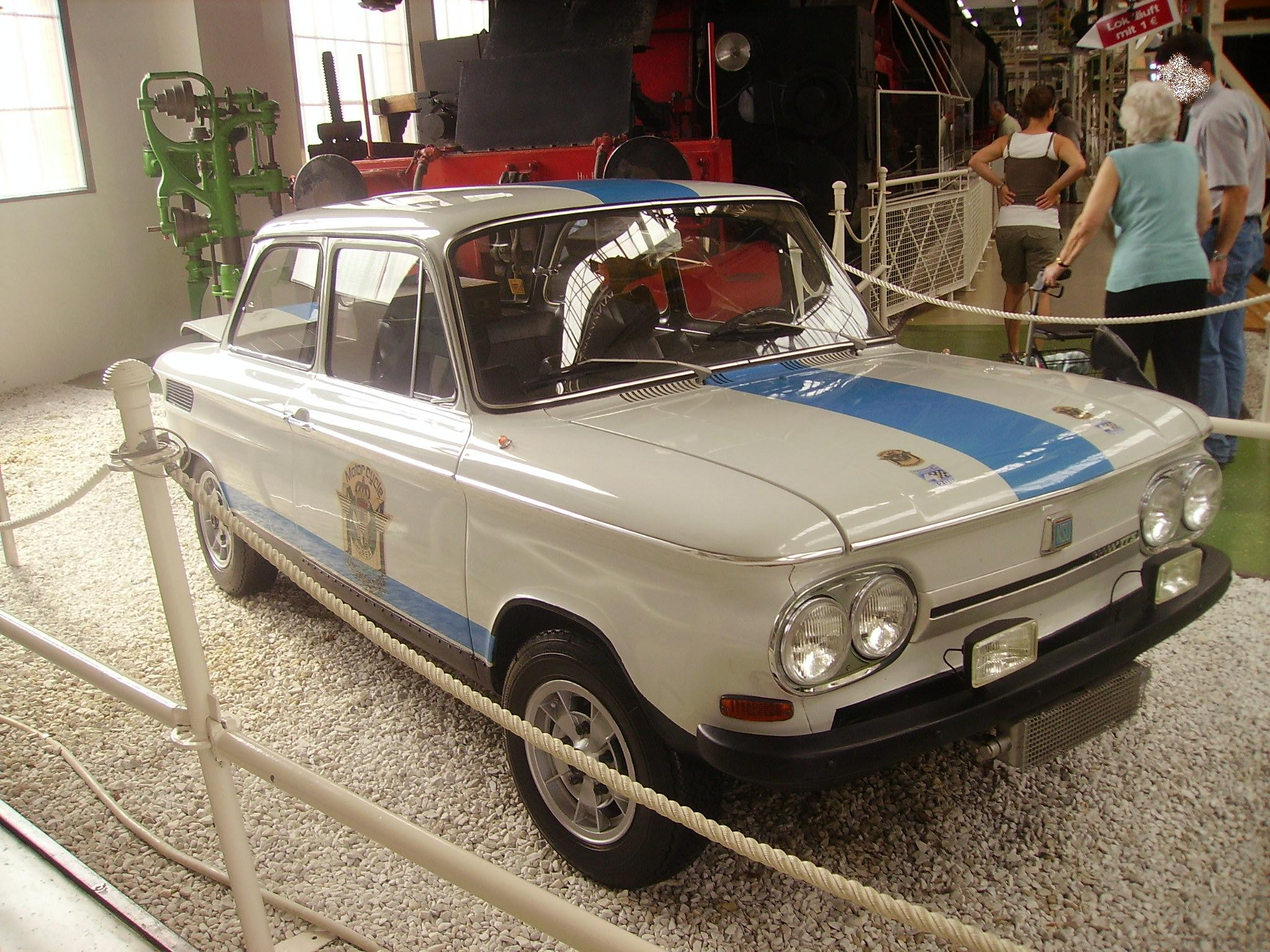 Technical Museum, Speyer